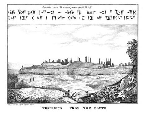 Lithograph of Persepolis from the south, from William Price, A Journal of the British Embassy to Persia, embellished with numerous Views taken in India and Persia; also a Dissertation upon the Antiquities of Persepolis (1825).